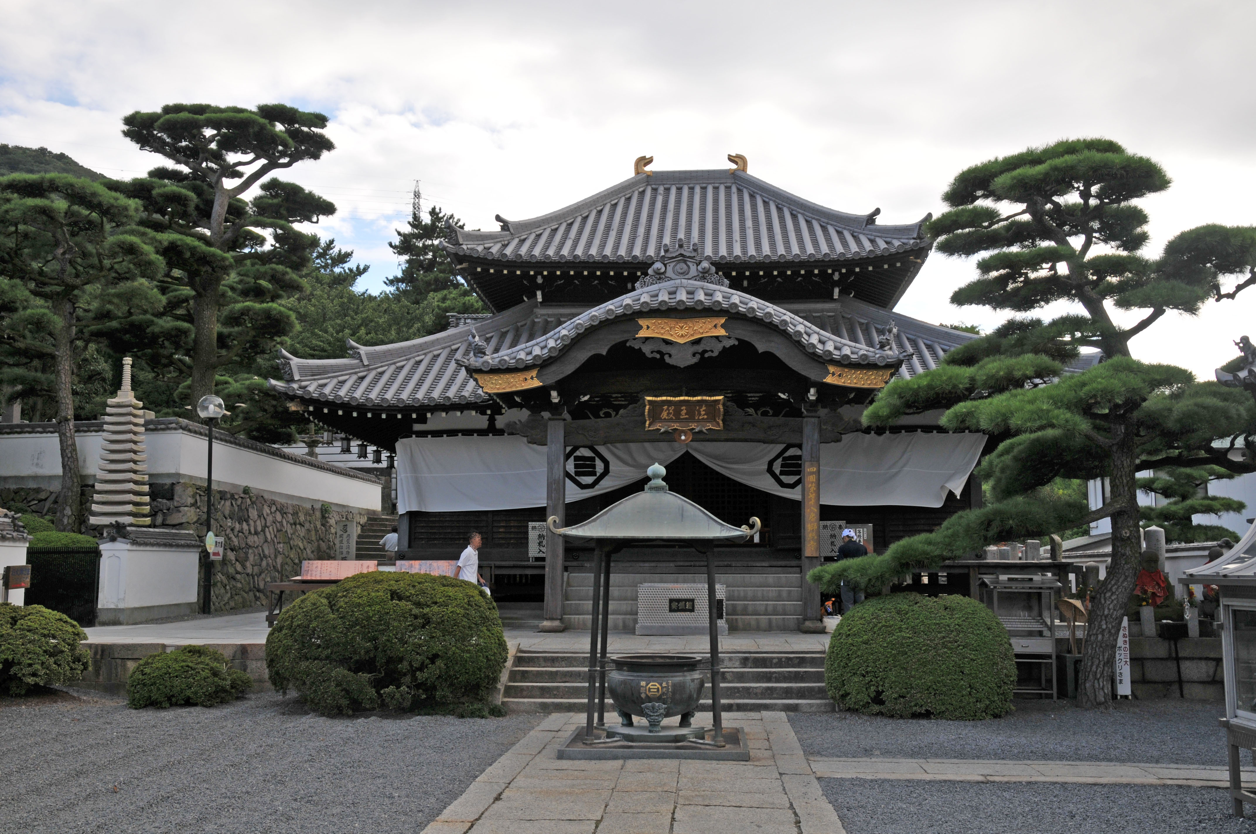 Main temple, Gōshō-ji